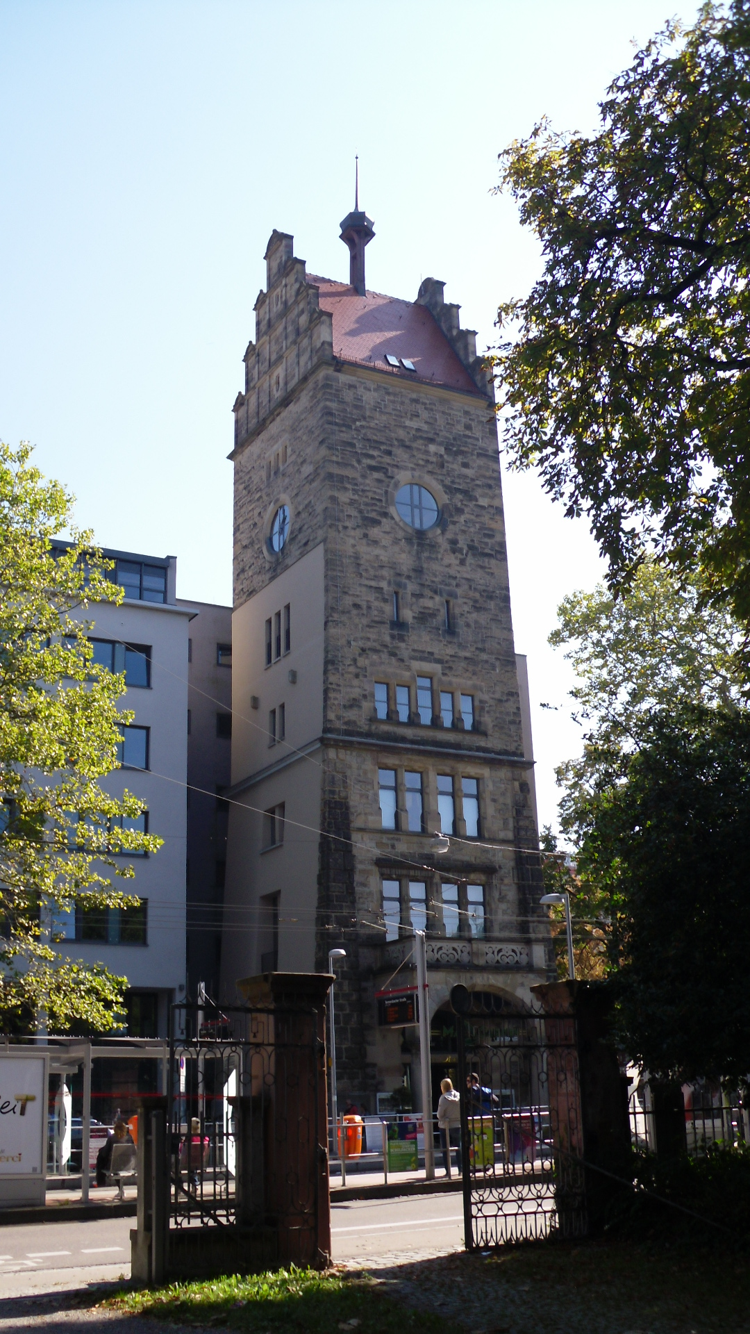 The old Kepler Gymnasium Freiburg. The school was established as German secondary school for education or so-called Realgymnasium Freiburg in 1907 and demolished except for the tower in 1997. In 1933, Werner Vordtriede passed here his A-level certificate or high school diploma.